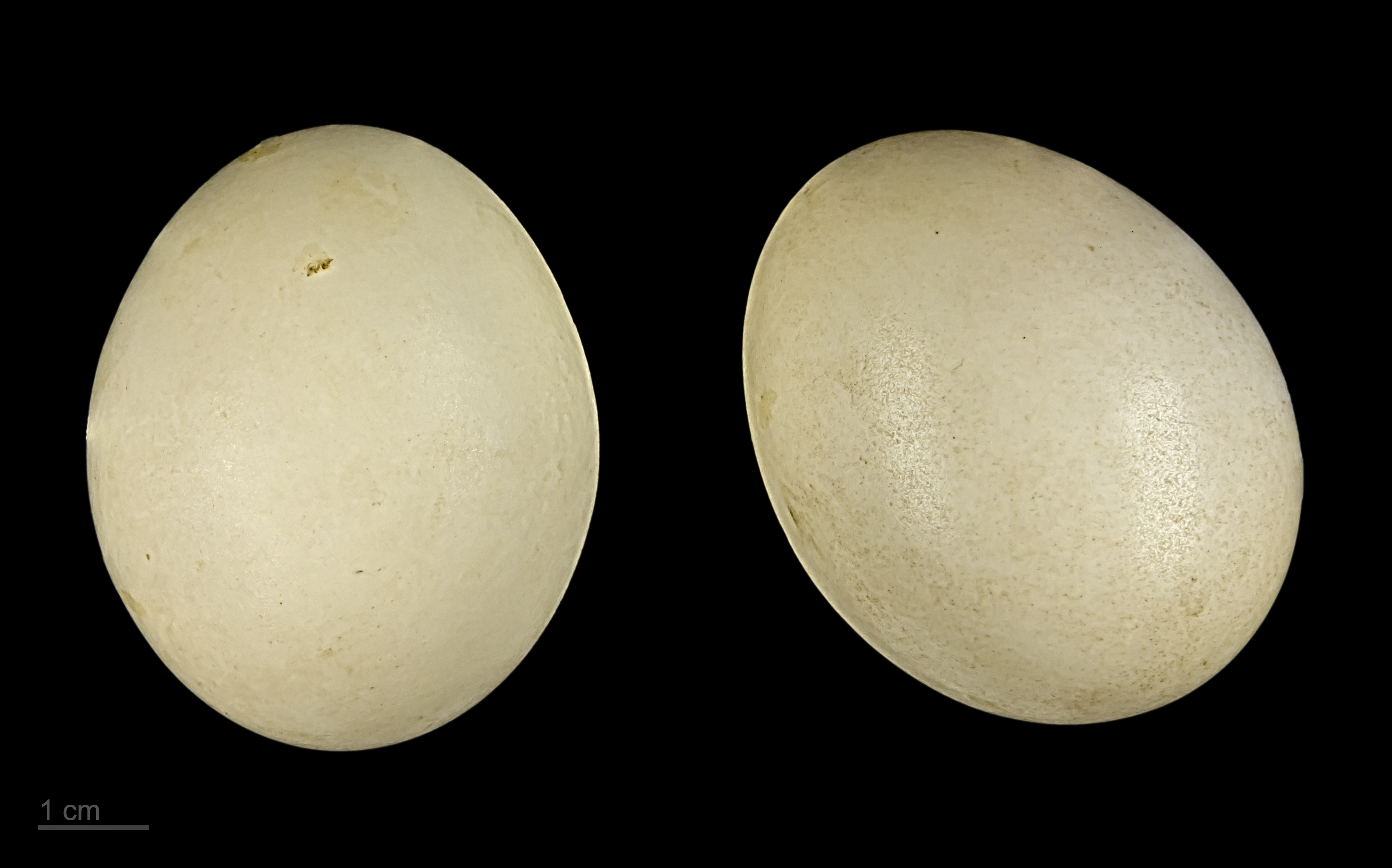 Eggs of mandarin duck Two specimens of the same spawn ; collection of Jacques Perrin de Brichambaut.